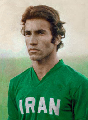 Ebrahim Ghasempour, 1976 Olympics